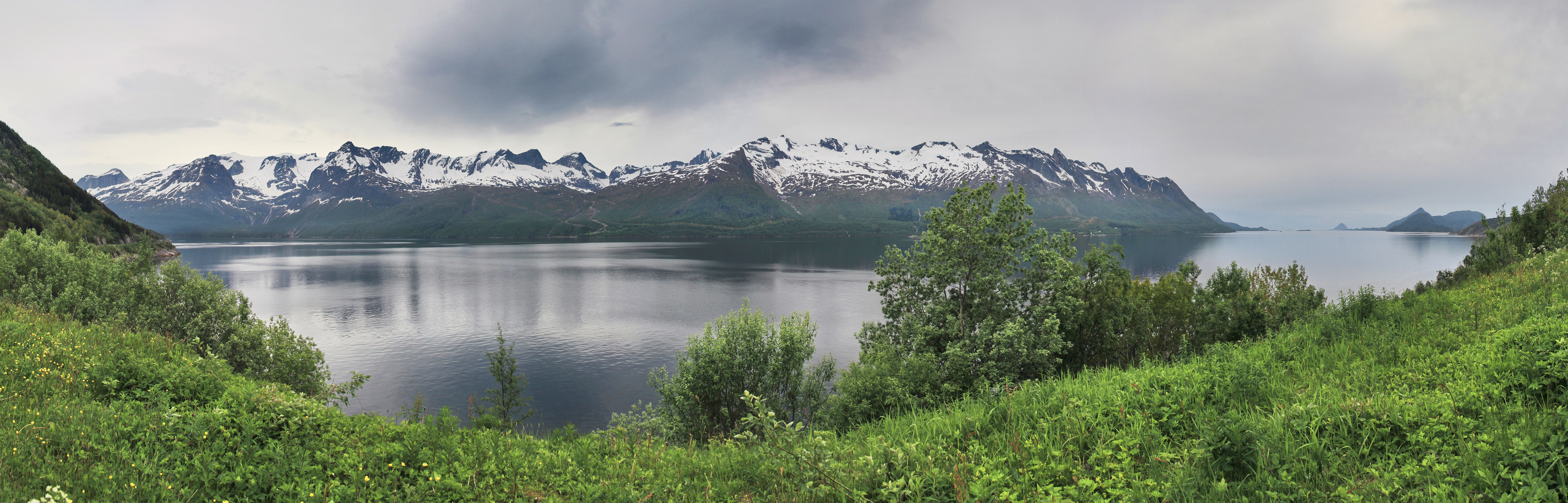 A wide view over Glomfjorden, Nordland, Norway in 2011 June.